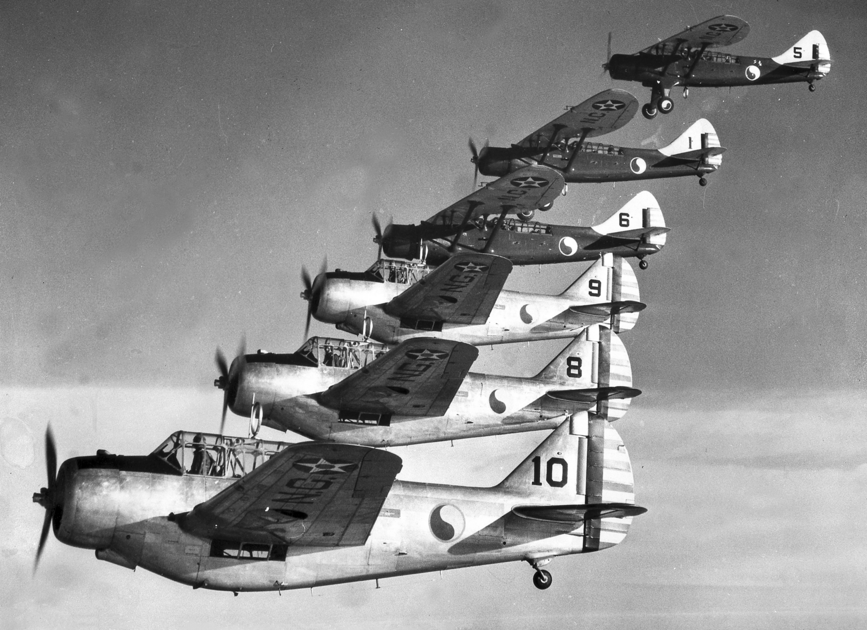 Three Douglas O-46A and three North American O-47 aircraft assigned to the Maryland National Guard's 104th Observation Squadron conduct a training sortie on 1 March 1940. Less than a year later, the 104th was mobilized in anticipation of World War II.